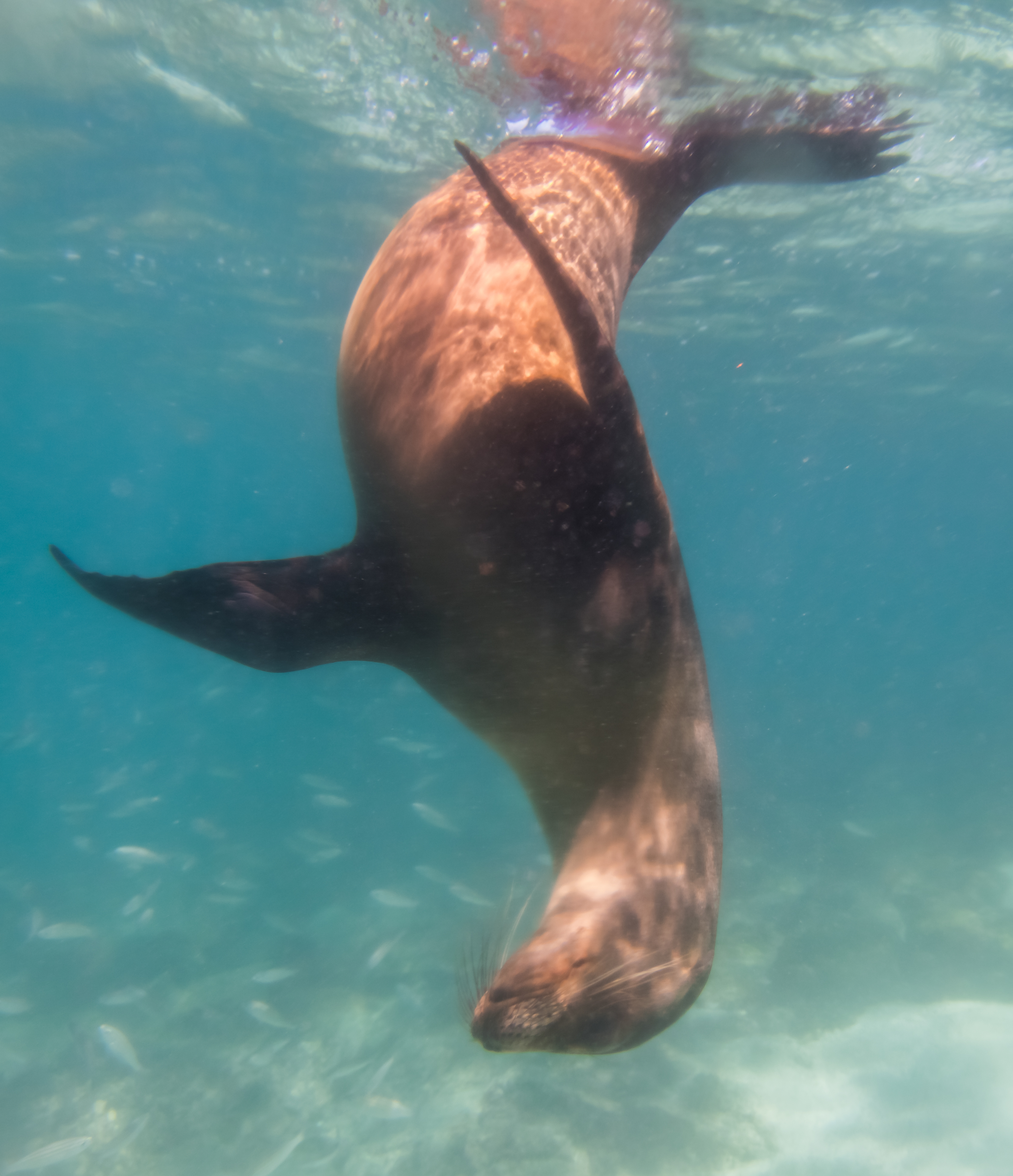 Sea lion (Zalophus californianus wollebaeki), San Cristobal island, Galapagos islands, Ecuador